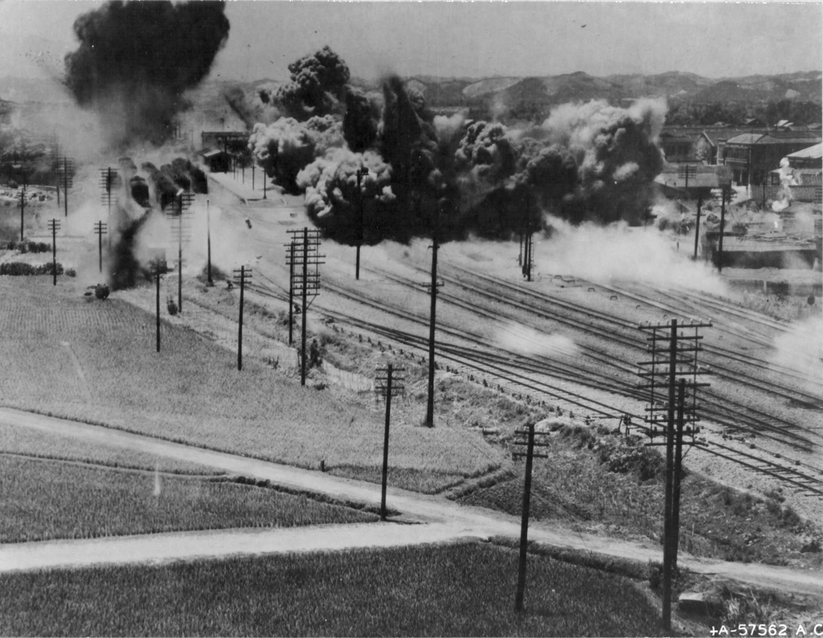 A photo depicts the bombardment of Chikunan rail station (竹南驛) on 1945-05-17 (ref: 米機襲來; isbn: 9789578017740)